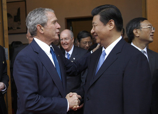 President George W. Bush is greeted by Chinese Vice President Xi Jinping Sunday